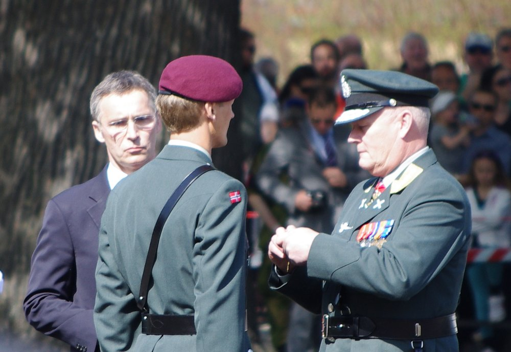 Colonel Eirik Johan Kristoffersen receives the War Cross w/Sword at a ceremony 8 May 2011